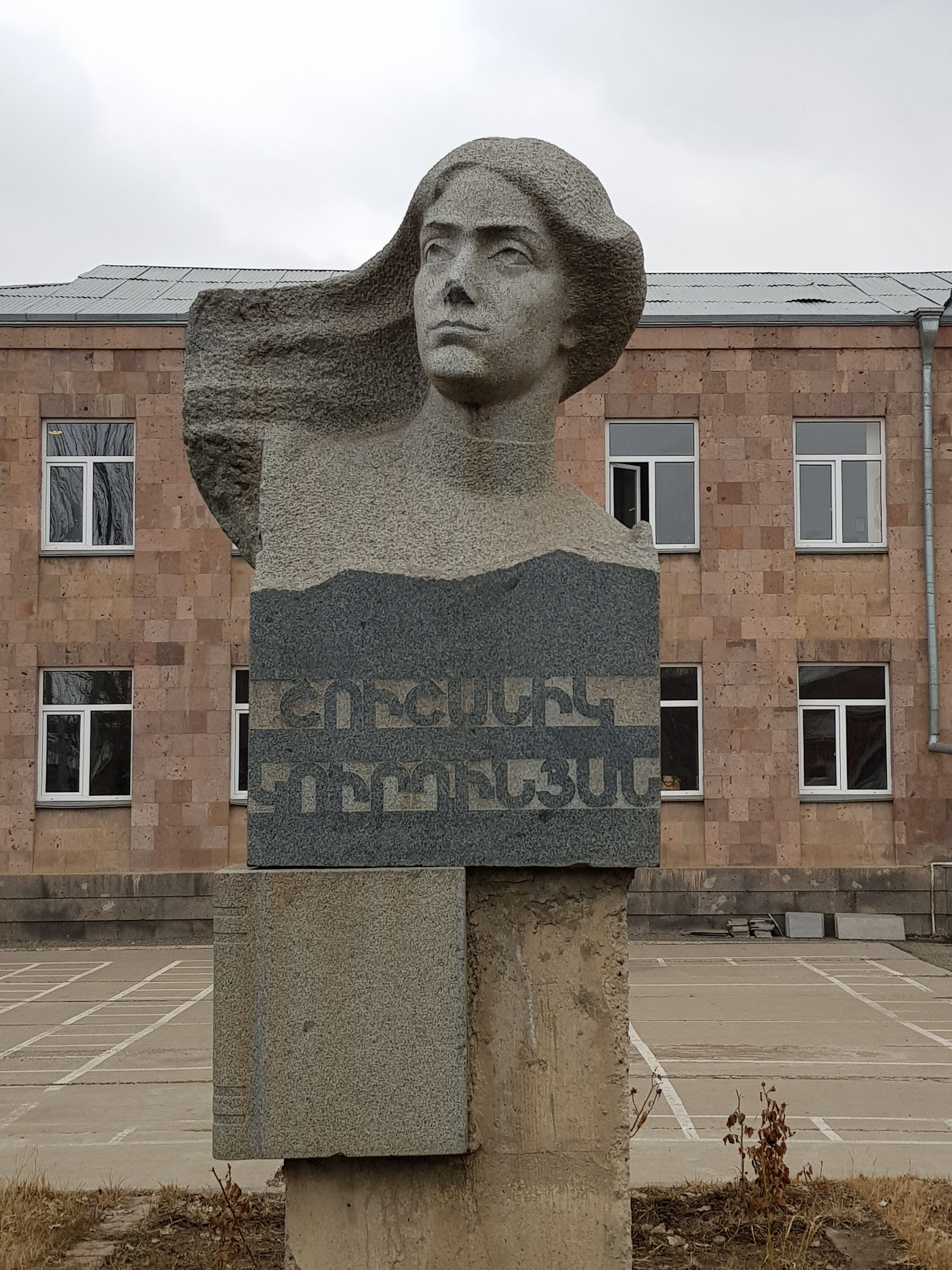 Shushanik Kurghinyan bust in Gyumri 1/4.884